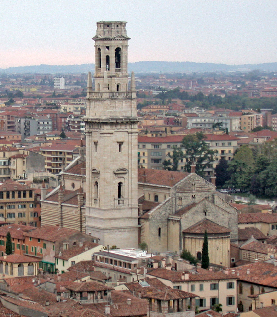 Verona, "Duomo" (cathedral), view from Castel San Pietro